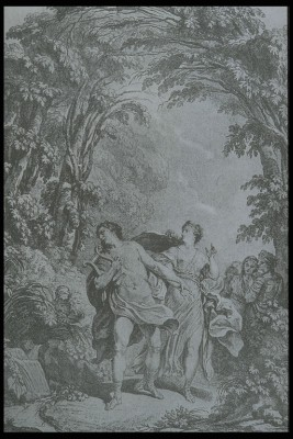 From the title page of the 1764 Paris score of Gluck's opera Orfeo ed Euridice